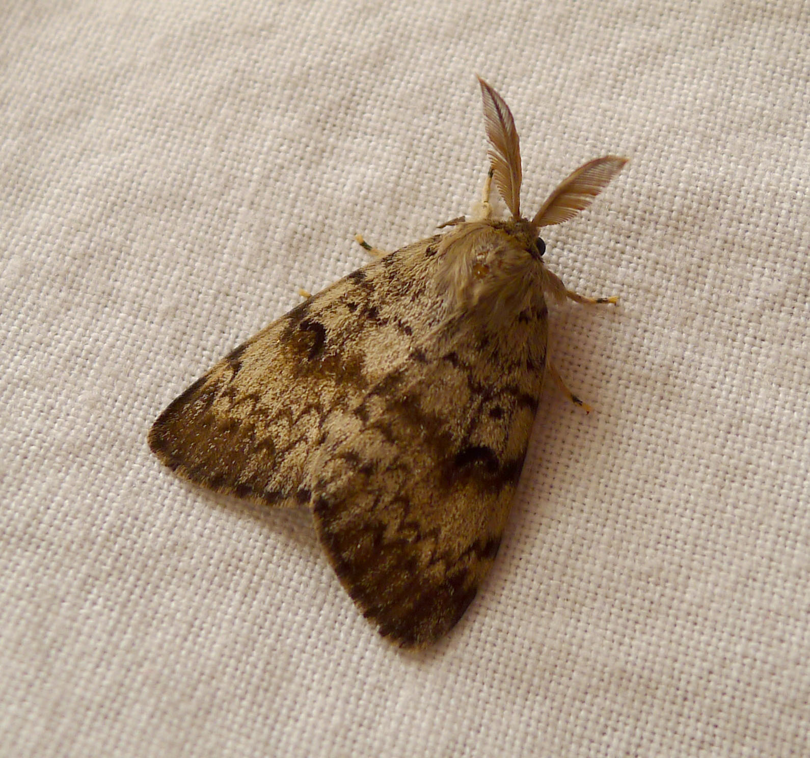 Former resident in Britain,now only Europe. Classified as Lymantriidae Reclassified as Noctuidae Reclassified as Erebidae